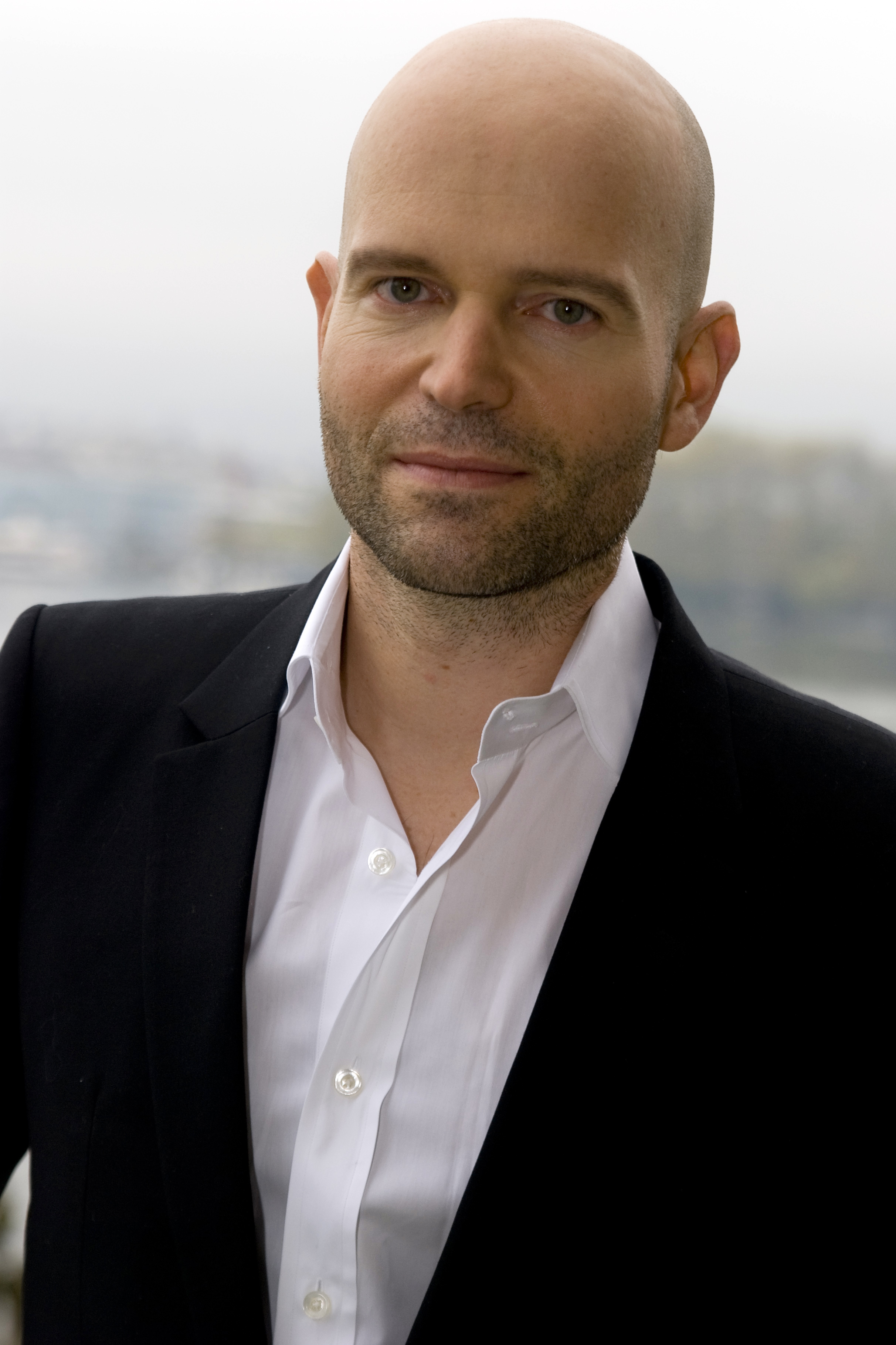 Marc Forster